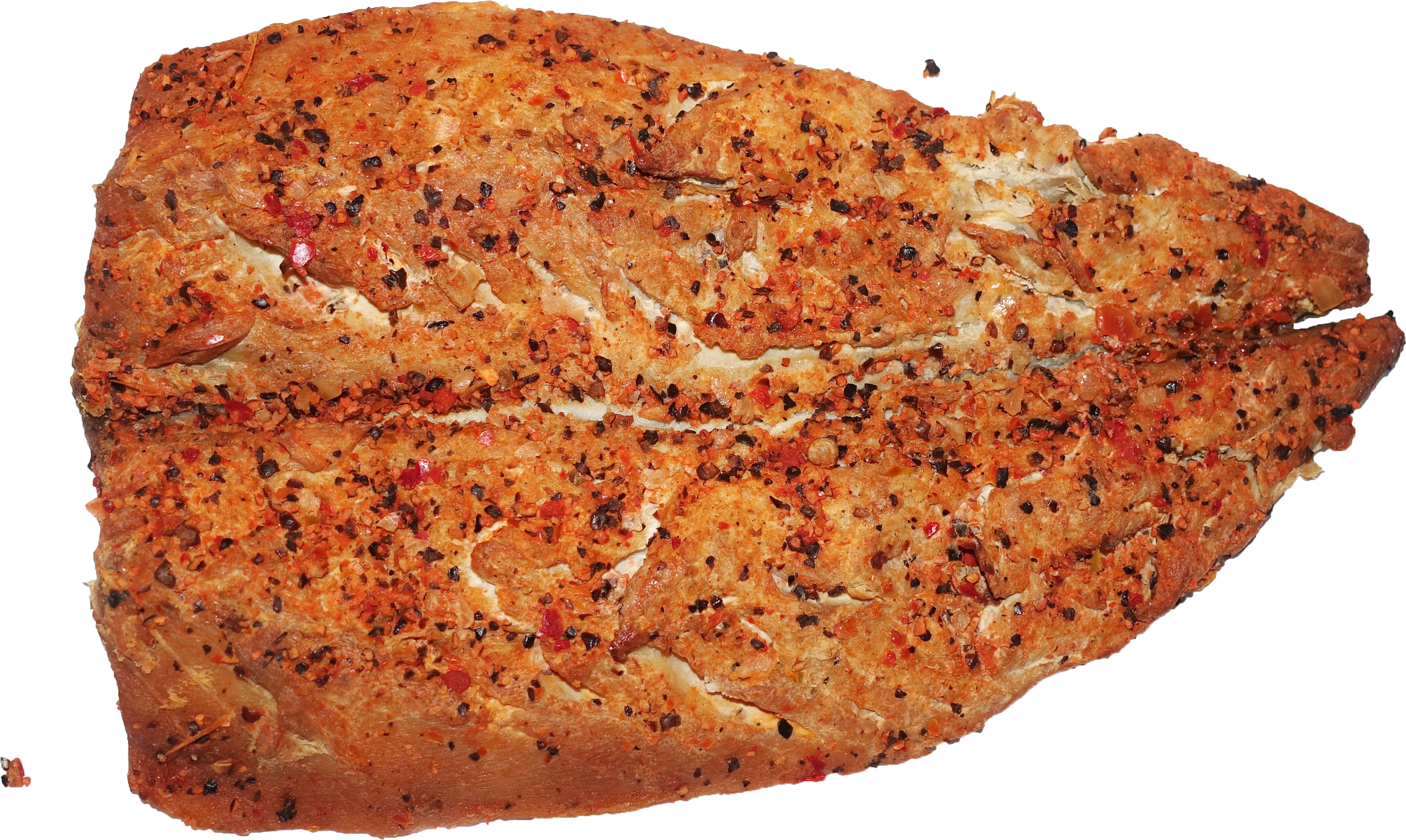 Mackerel (Scomber scombrus) fillet.